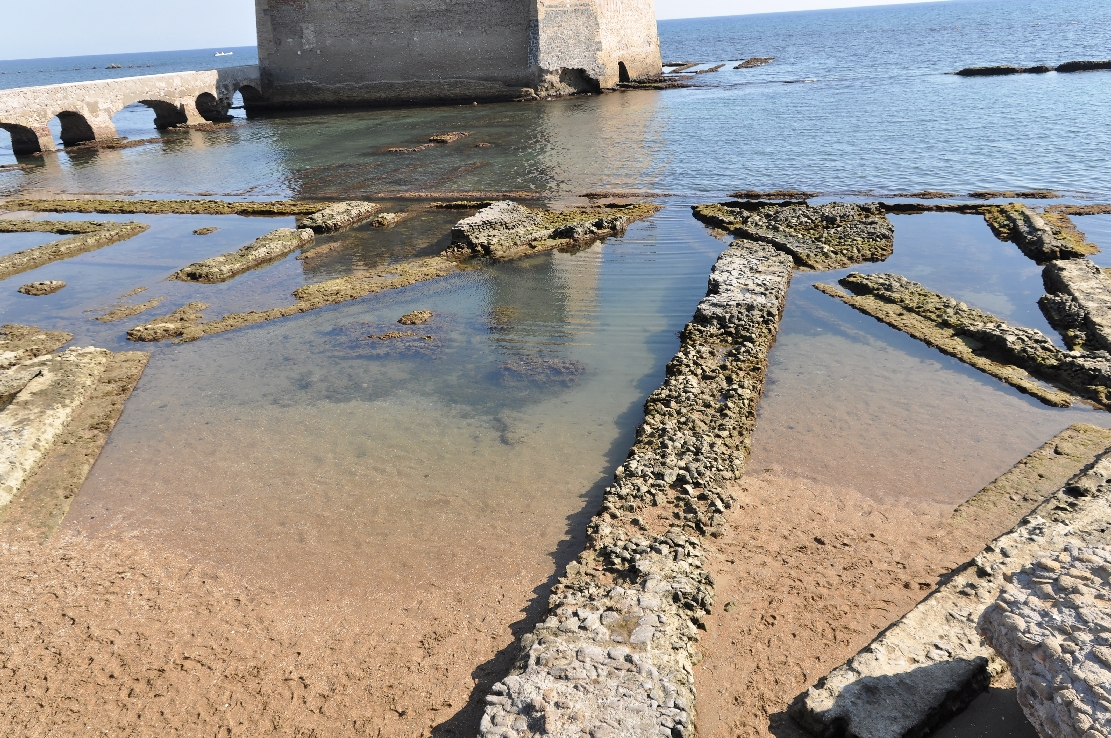 Torre Astura Dieses Foto entstand in Zusammenarbeit mit Stadtbesichtigungen.de Die Seiten Stadtbesichtigungen.de, der dazugehörige Reise Blog sowie die Facebookseite: Stadtbesichtigungen Rom dürfen dieses Bild für Ihre Veröffentlichungen ohne den Hinweis auf Wikipedia, Commons bzw der Lizenz verwenden. Die Verantwortlichen habe von mir (Ra Boe) die Originaldaten zur freien Verfügung übermittelt bekommen.